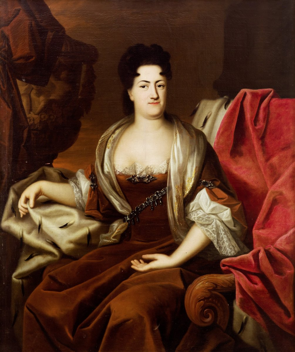 Elisabeth Sophie Marie of Schleswig-Holstein-Sonderburg-Norburg (1683-1767), duchess of Brunswick-Wolfenbüttel as wife of Duke Augustus William